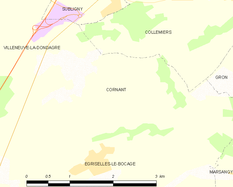 Map of French municipality Cornant